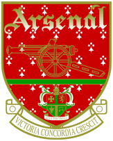 This file is in the public domain, because Arsenal FC itself has said the old crest is ineligible for copyright, see below. In case this is not legally possible: The right to use this work is granted to anyone for any purpose, without any conditions, unless such conditions are required by law. Please verify that the reason given above complies with Commons' licensing policy. Full size version: Image:Arsenal fc old crest.png This was the crest of Arsenal Football Club from c.1949 to 2002. In 2002, the club replaced the crest, stating in a press release: "Principally, as the current crest incorporates many separate elements, which have been introduced over a number of years, there is uncertainty surrounding its exact origination. As a consequence, the Club is unable to copyright this crest." The release is no longer available on the club website but an Internet Archive copy of it is here: [1]. Another copy is here: [2] (link now dead: Internet Archive copy here: [3]. A BBC news story on the new crest is available here: [4] Since the club has admitted the crest is ineligible for copyright, it has been given the Insignia image tag. Category:British coat of arms images